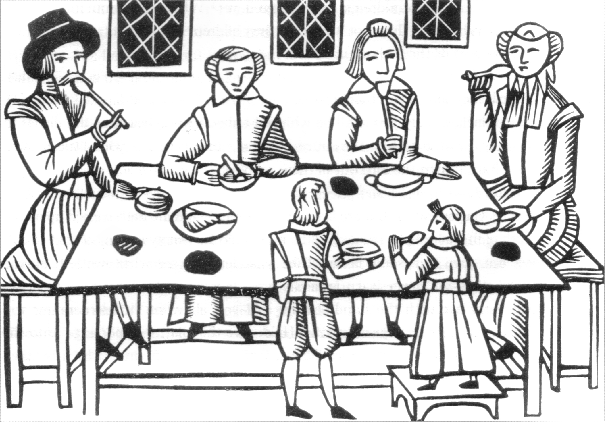 Woodcut of family dining, from the Roxburghe Ballads